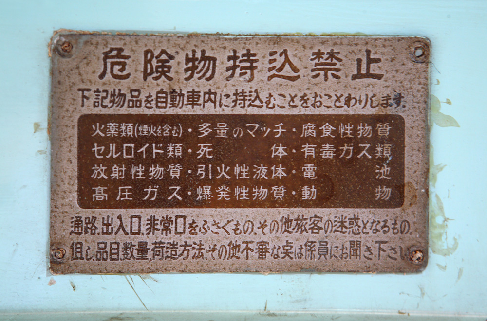 Dangerous Goods restriction caution plate of Kishu Railway Kiha 603 Diesel Car.